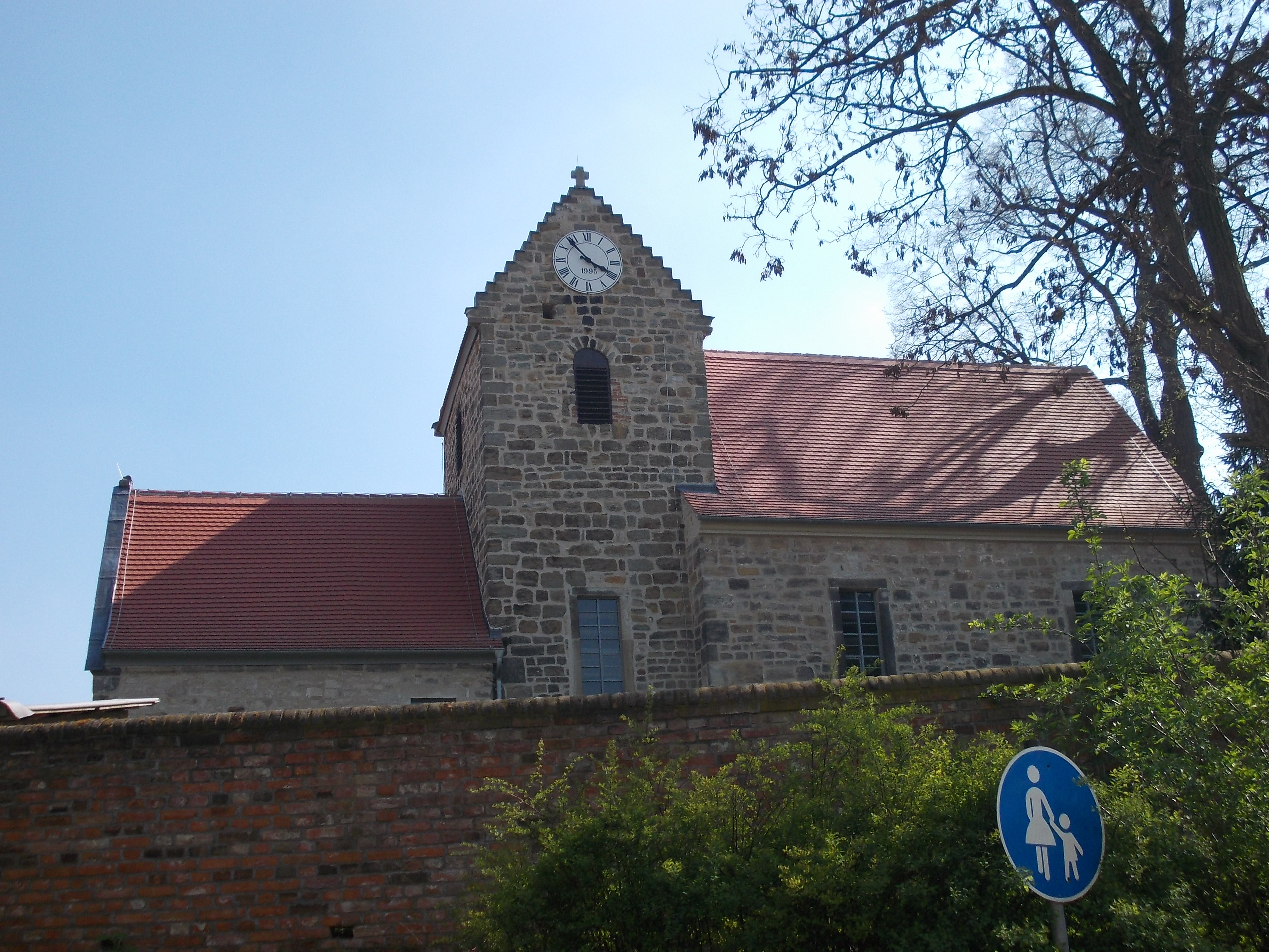 Prittitz church (Teuchern, district: Burgenlandkreis, Saxony-Anhalt)